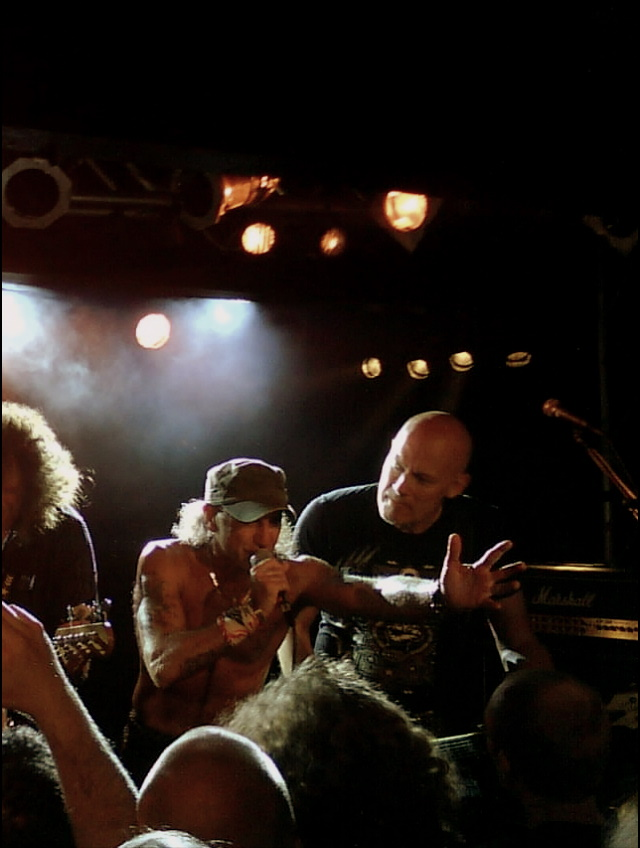 Picture of Accept performing in Stockholm, at Debaser Slussen